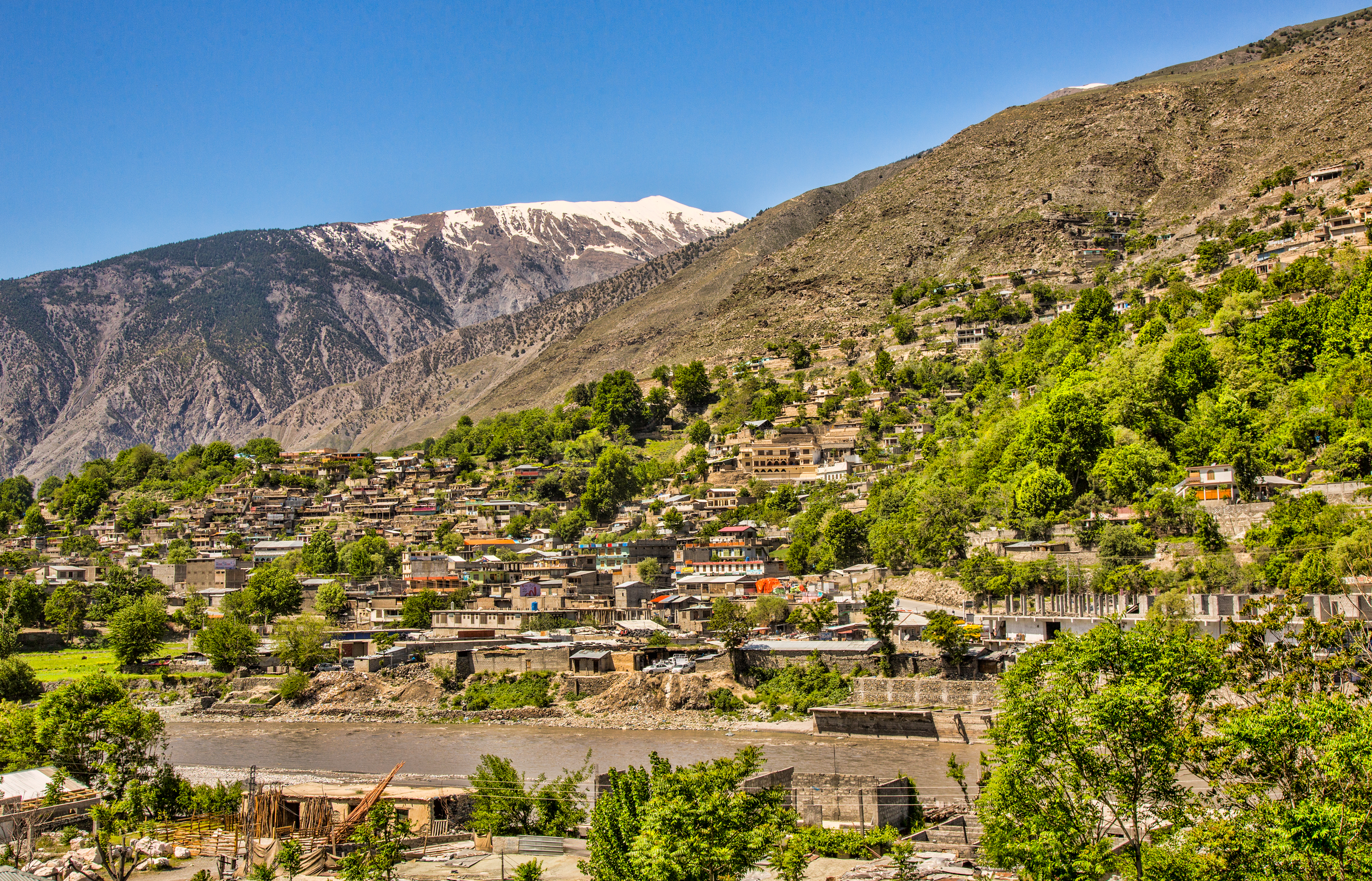 A view of city of Chitral. In the foreground river Chitral is flowing